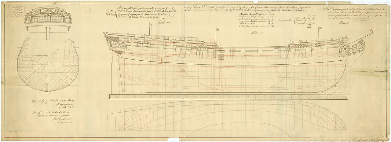 JUNO 1780 lines & profile Date: NMM, Progress Book, volume 5, folio 245, states that 'Andromache' was begun in June 1780 at Adams & Barnard on the River Thames. She was launched 17 Nvoember and sent to Deptford Dockyard for fitting. It is likely to be her as 'Ambuscade' was launched in 1773.